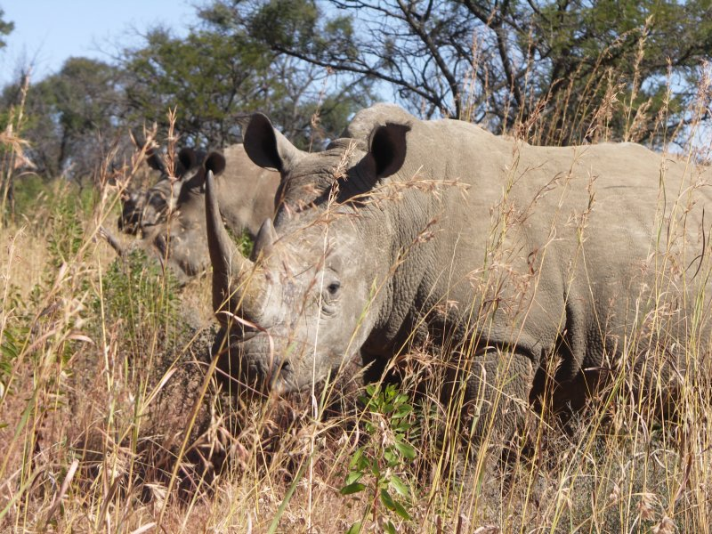 Rhino. Rhino on private reserve in Mpumalanga, Mpumalanga.